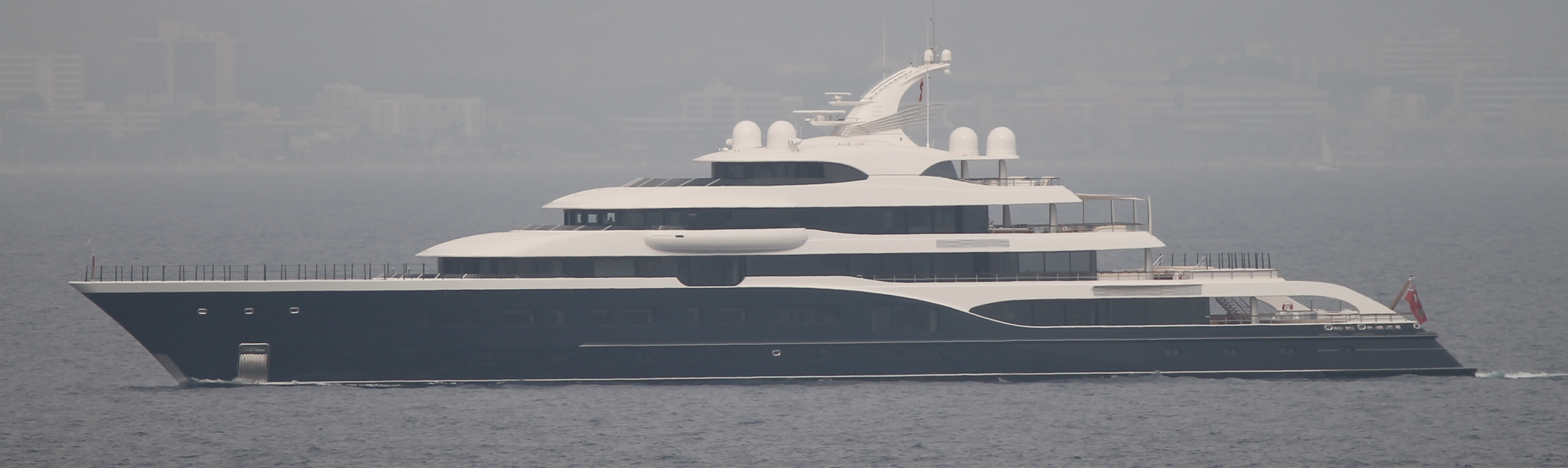 Yacht near Puerto Portals, Bay of Palma, Mallorca, Spain